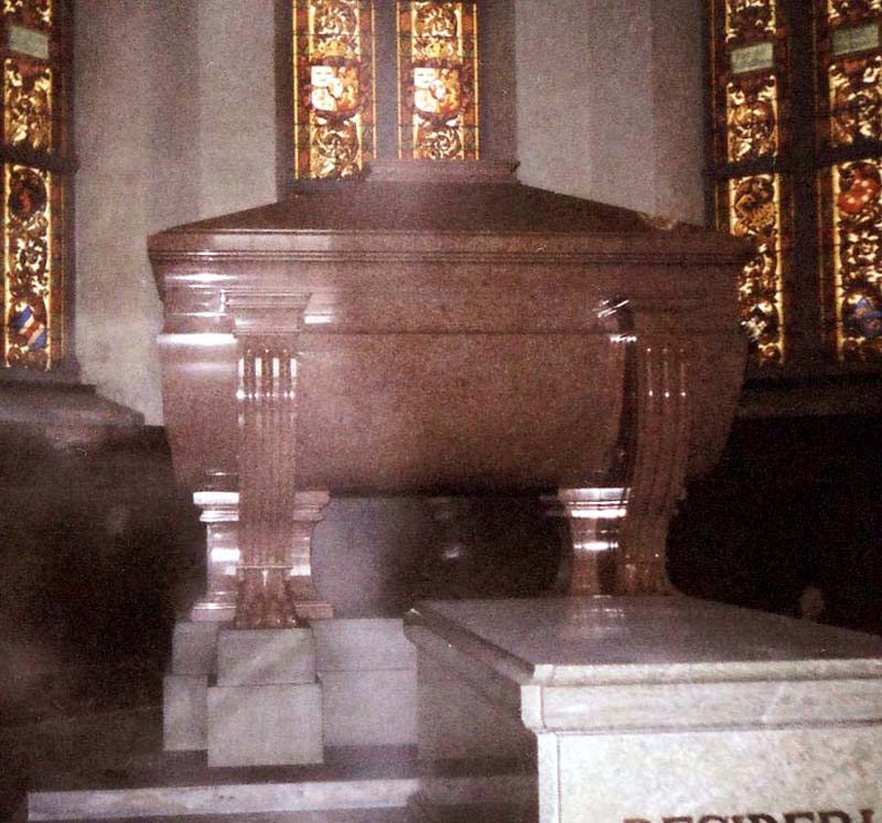 Grave of King Carl XIV John of Sweden (1763-1844) Carl III John of Norway on the ground floor of the Bernadottean Chapel at Riddarholm ChurchPlace: Stockholm, Sweden